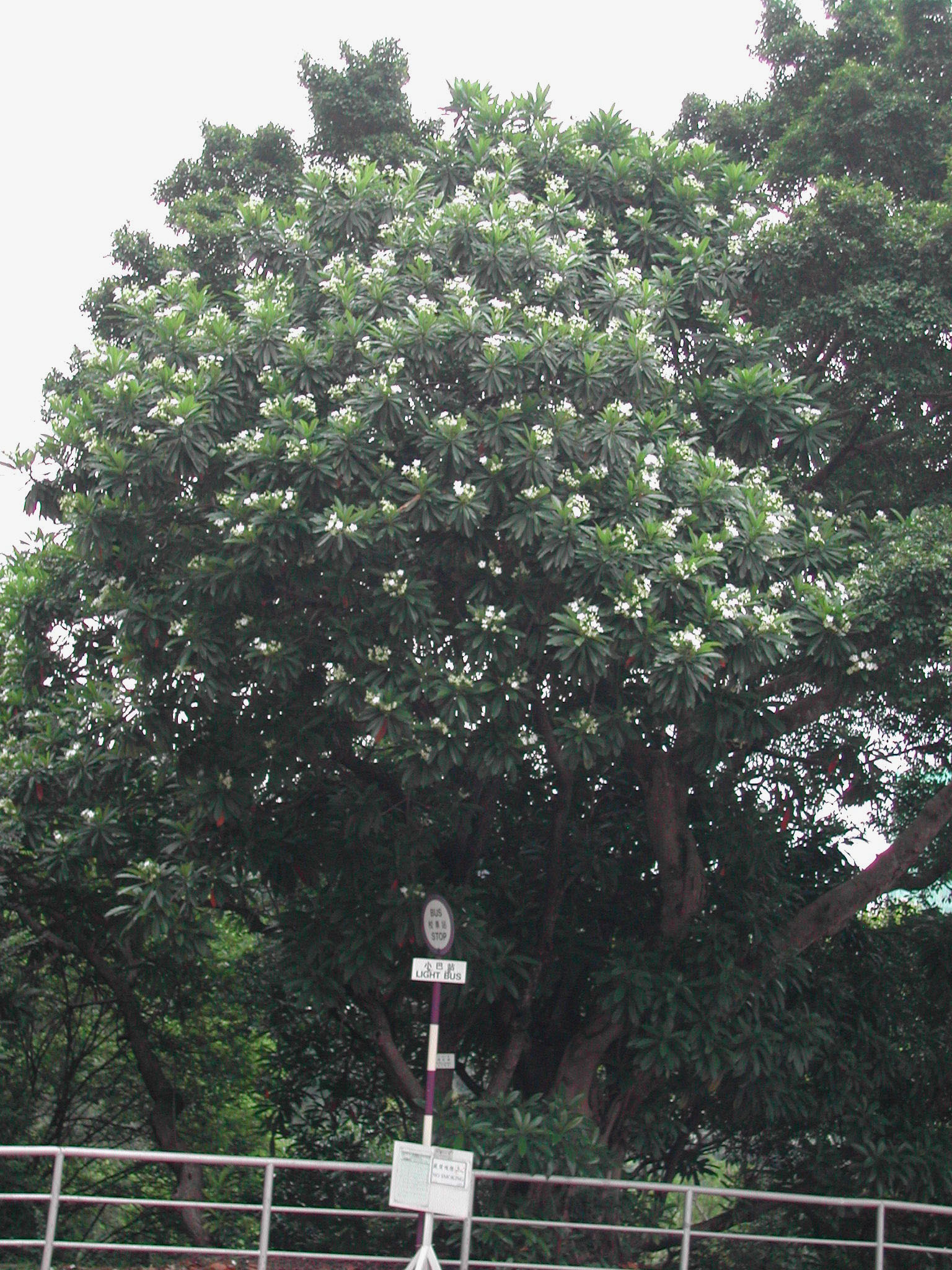 Cerbera manghas. Photo taken by WingkLEE in Shatin, Hong Kong